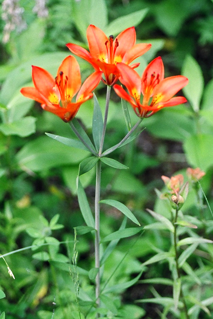 The western wood lily (Lilium philadelphicum) is found on south-facing montane slopes and open temperate-zone aspen parkland. This large, very showy orange flower opens upward, displaying black-ended stamens and black dots on the inner part of the petals. It is a protected plant in Canada, but because of its beauty, it is a target for unknowledgeable pickers. Unfortunately, this kills the plant, which is unable to produce two sets of leaves in a summer. It is commonly but incorrectly known as the "tiger lily," to which it bears little resemblance. The western wood lily is the provincial flower of Saskatchewan, Canada, and blooms from June to August. Ø2004 D. Windrim Captioned As { }